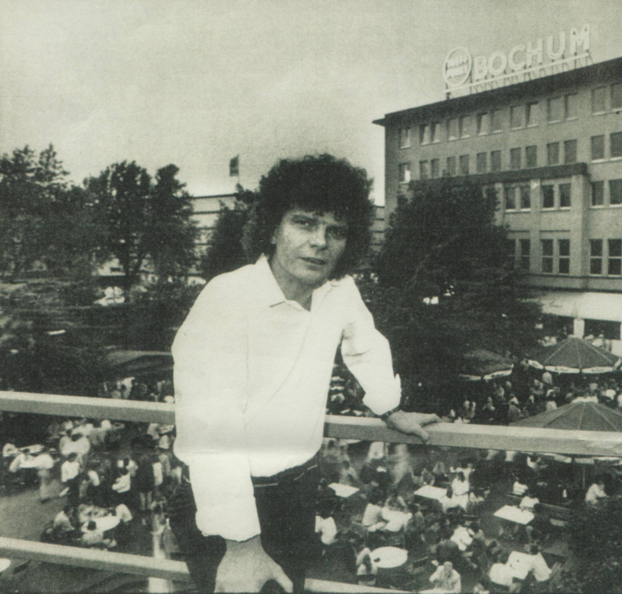 leonardo b., king of pubs in bochum, 1988